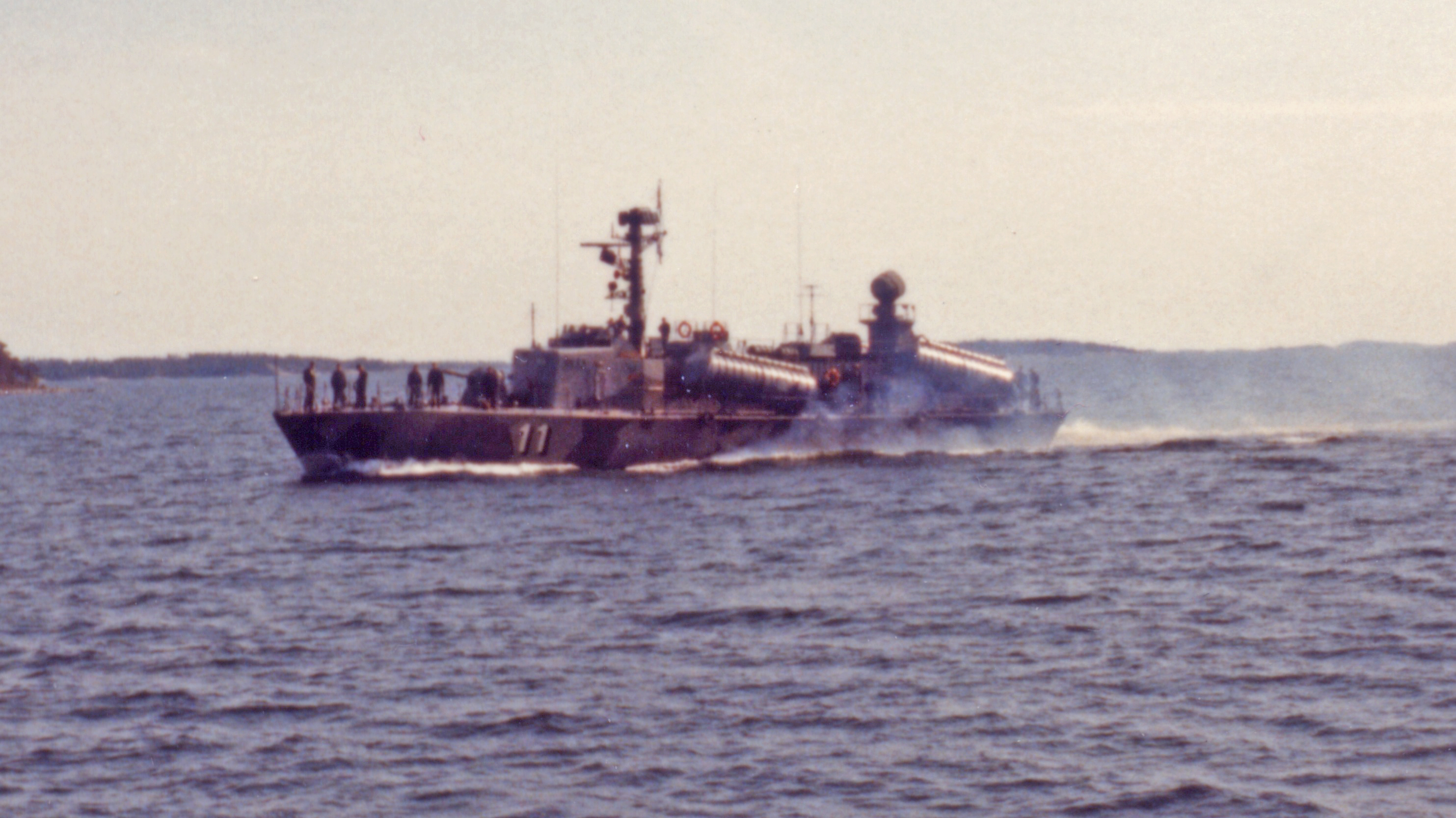 Tuima Class (the Soviet project 205-ER) missle boat of Finnish Navy Tuima.